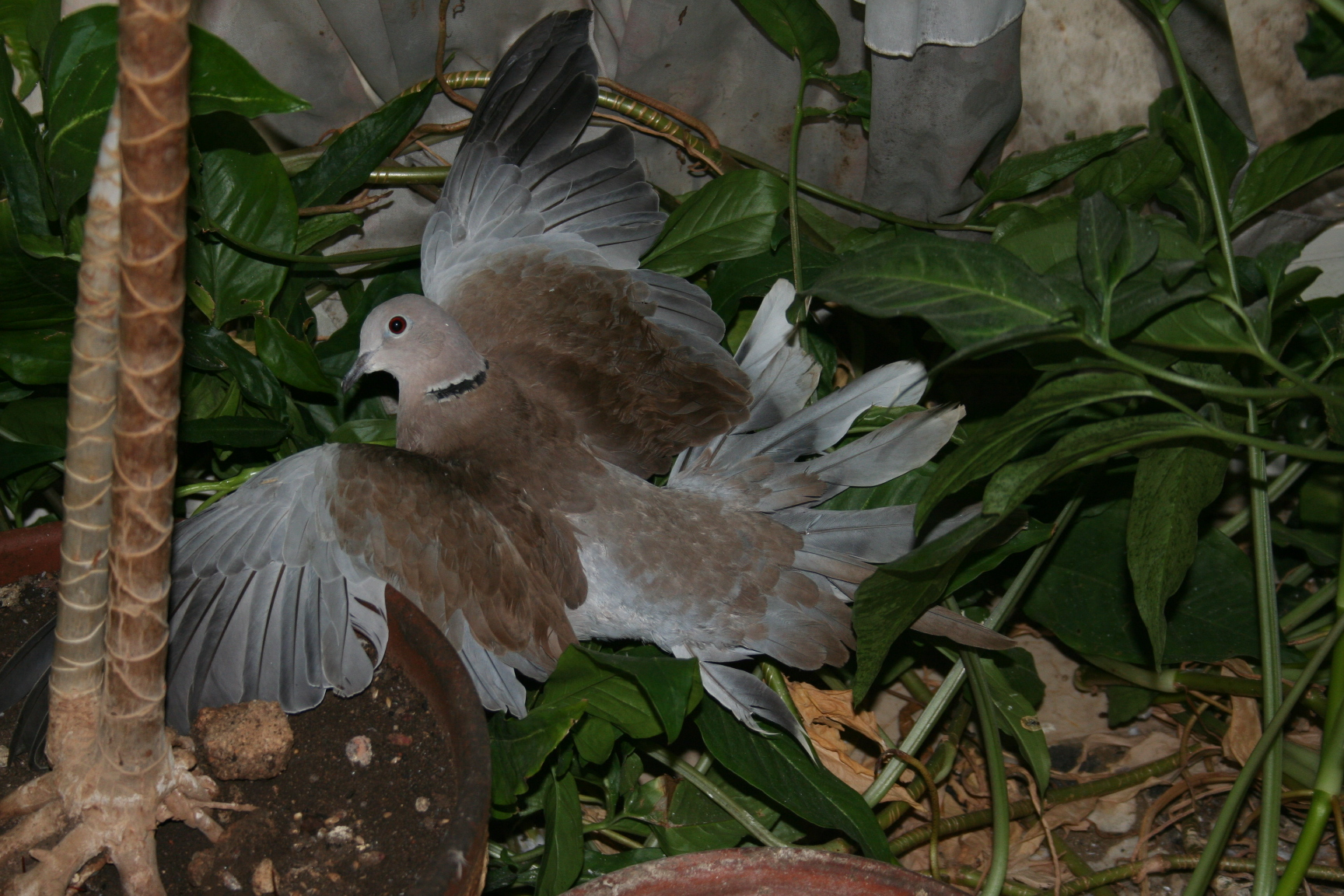 Collard Dove (Streptopelia decaocto)